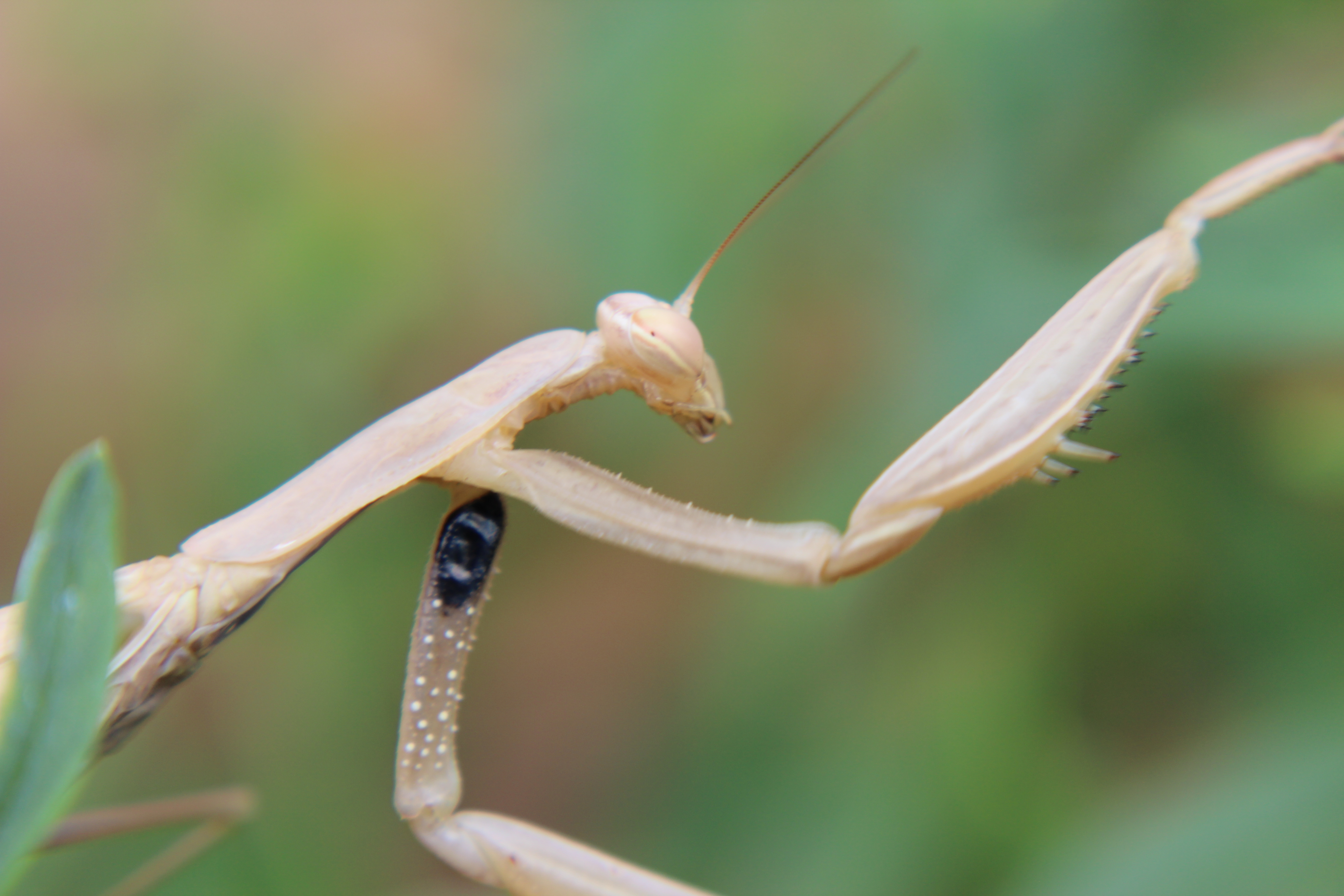 This is a picture of a male M.religiosa showing the indicative marking of this species (the black mark on the fore coxa). In this picture, the mantid's labrum are adducted (opened) as well. Taken in Pocatello, Idaho